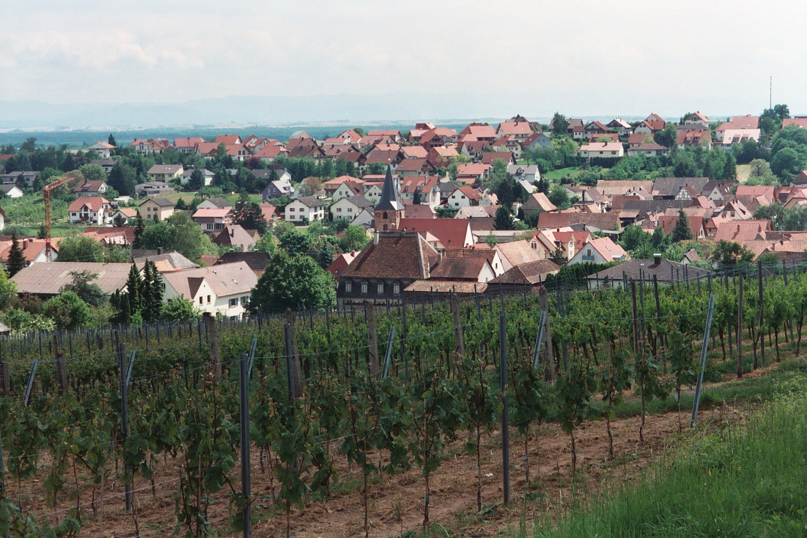 Oberotterbach, view to the village